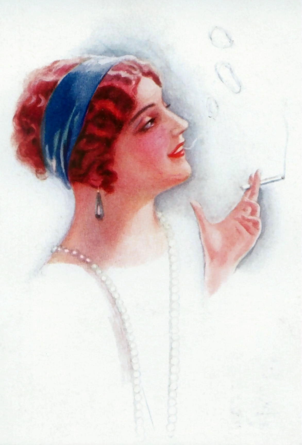 NEP private soviet postcard 1920s